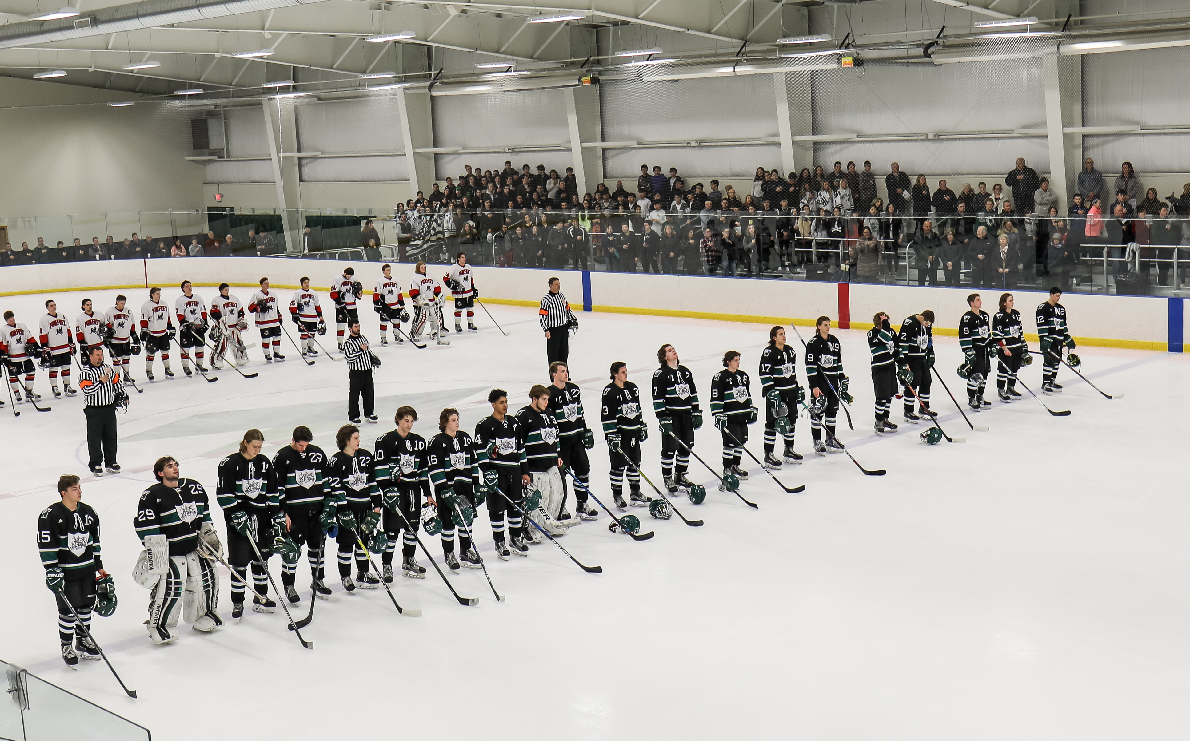 Winch Boy's at NEPSAC Championships